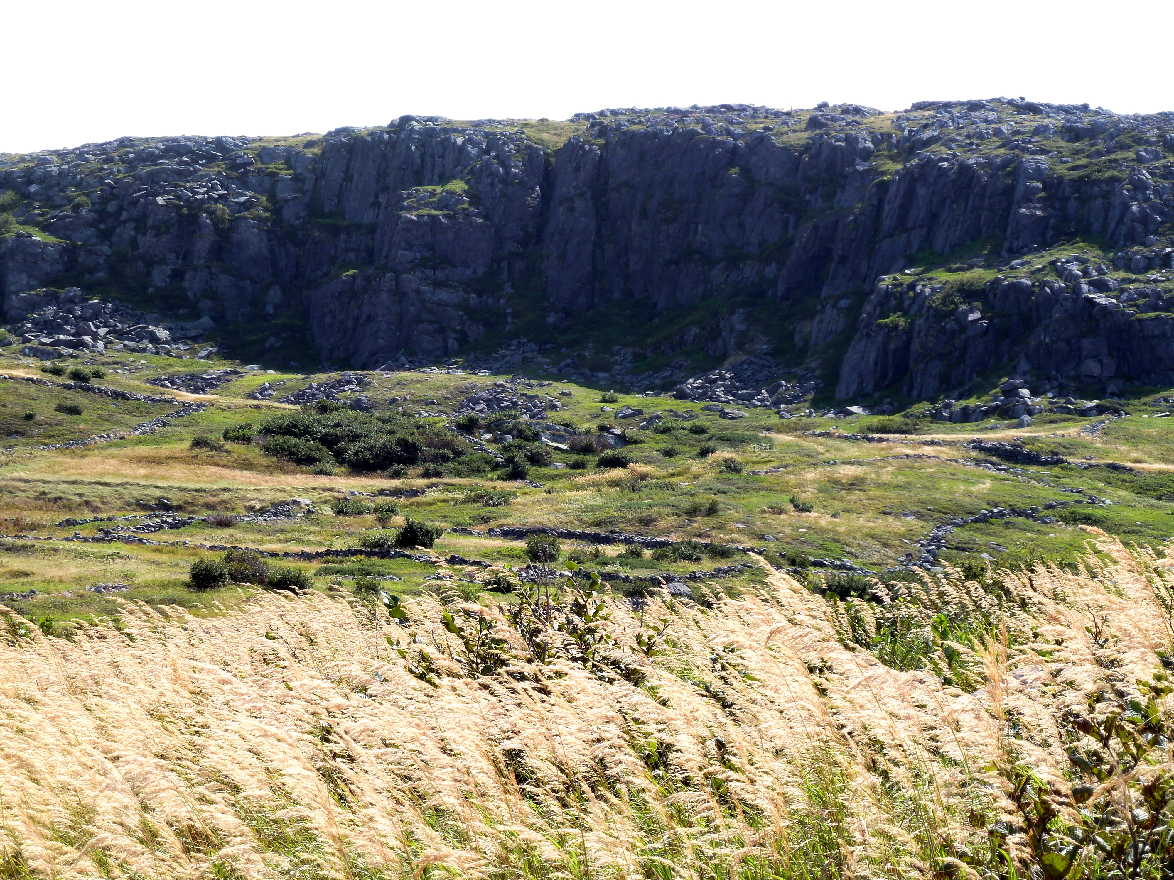 Walled Landscape of Grates Cove National Historic Site of Canada, Newfoundland and Labrador